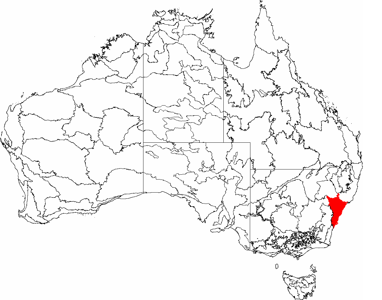 This is a map of the Interim Biogeographic Regionalisation of Australia (IBRA), with state boundaries overlaid. The Sydney Basin region is shown in red.